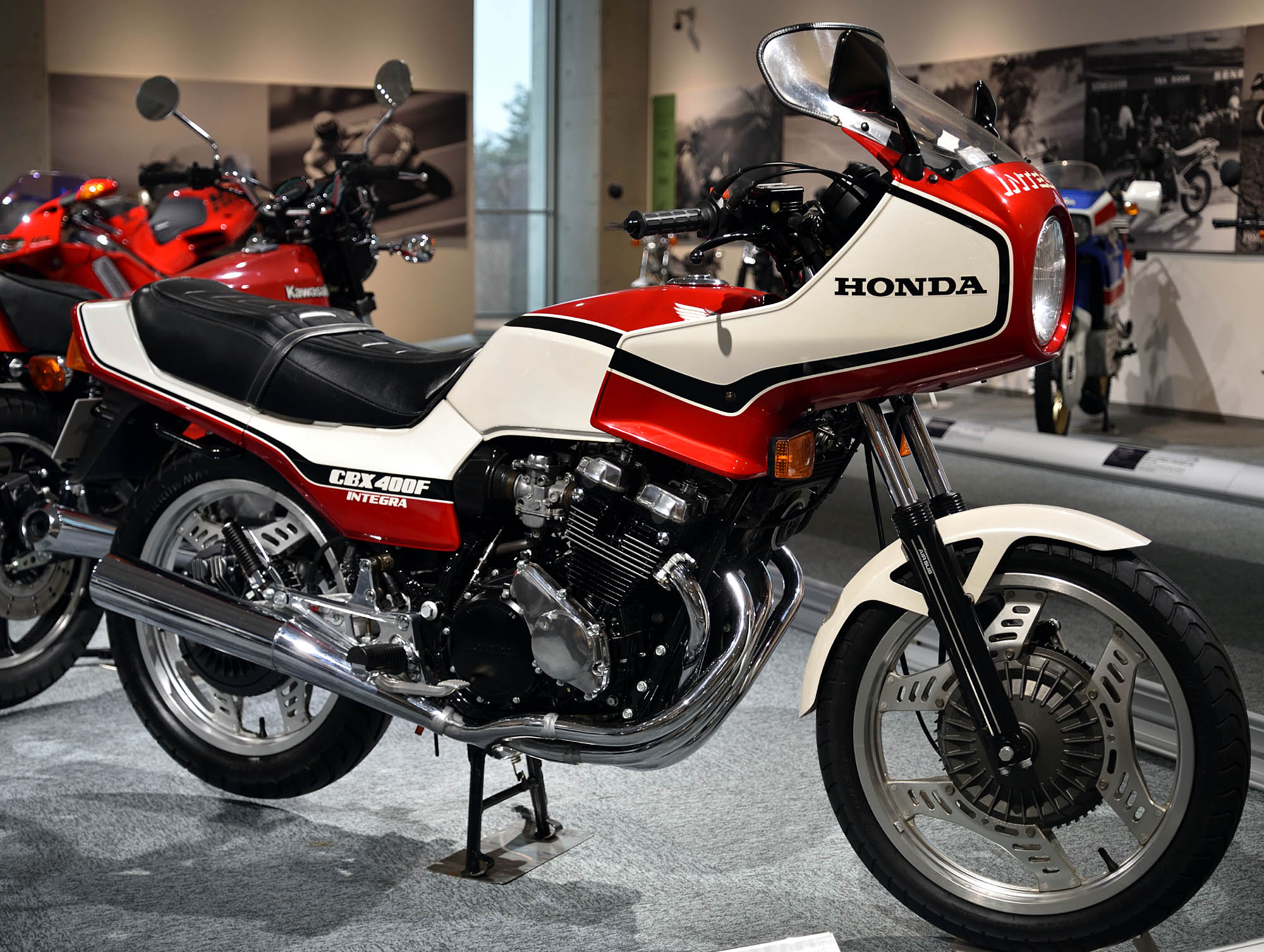 Honda CBX400F Integra (1985)